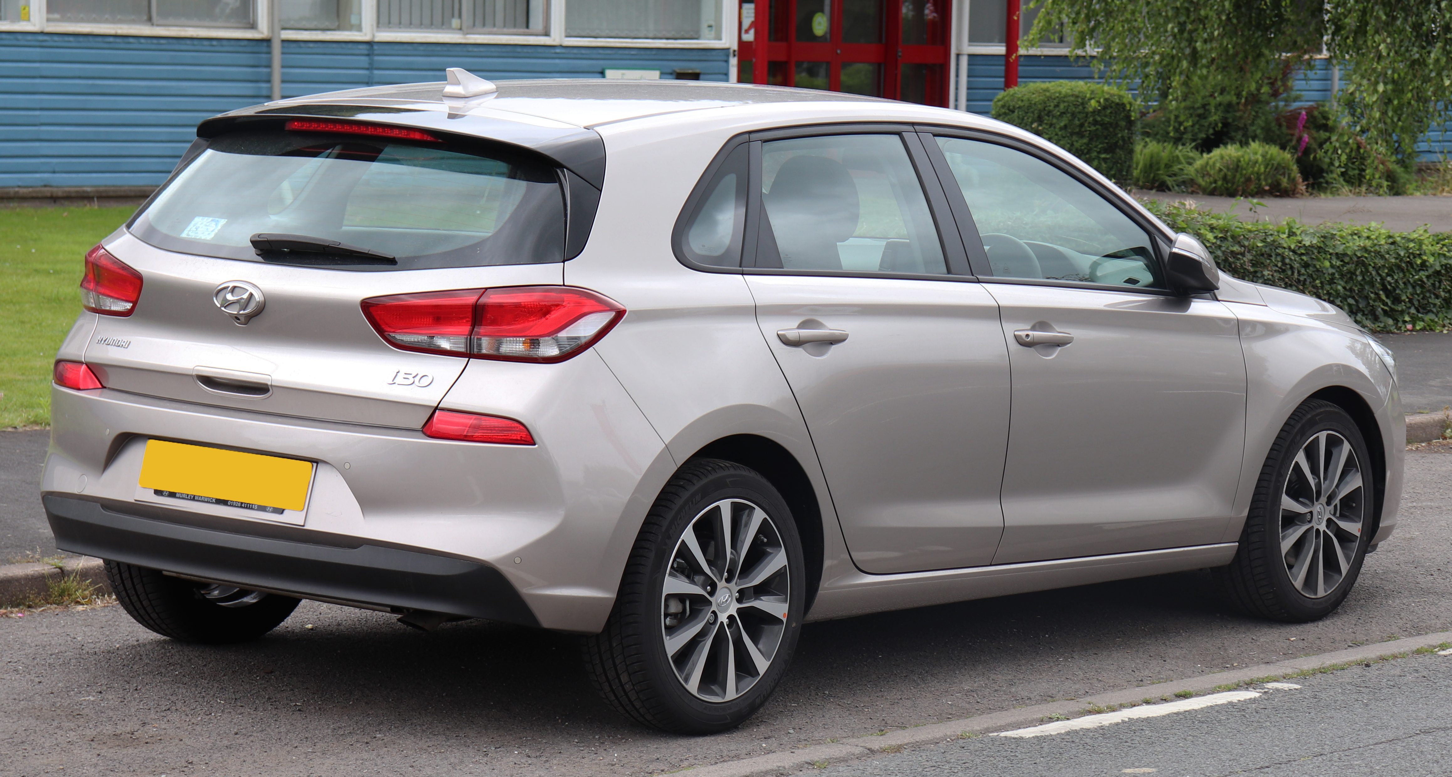 2018 Hyundai i30 SE Nav T-GDi 1.3 Rear Taken in Warwick